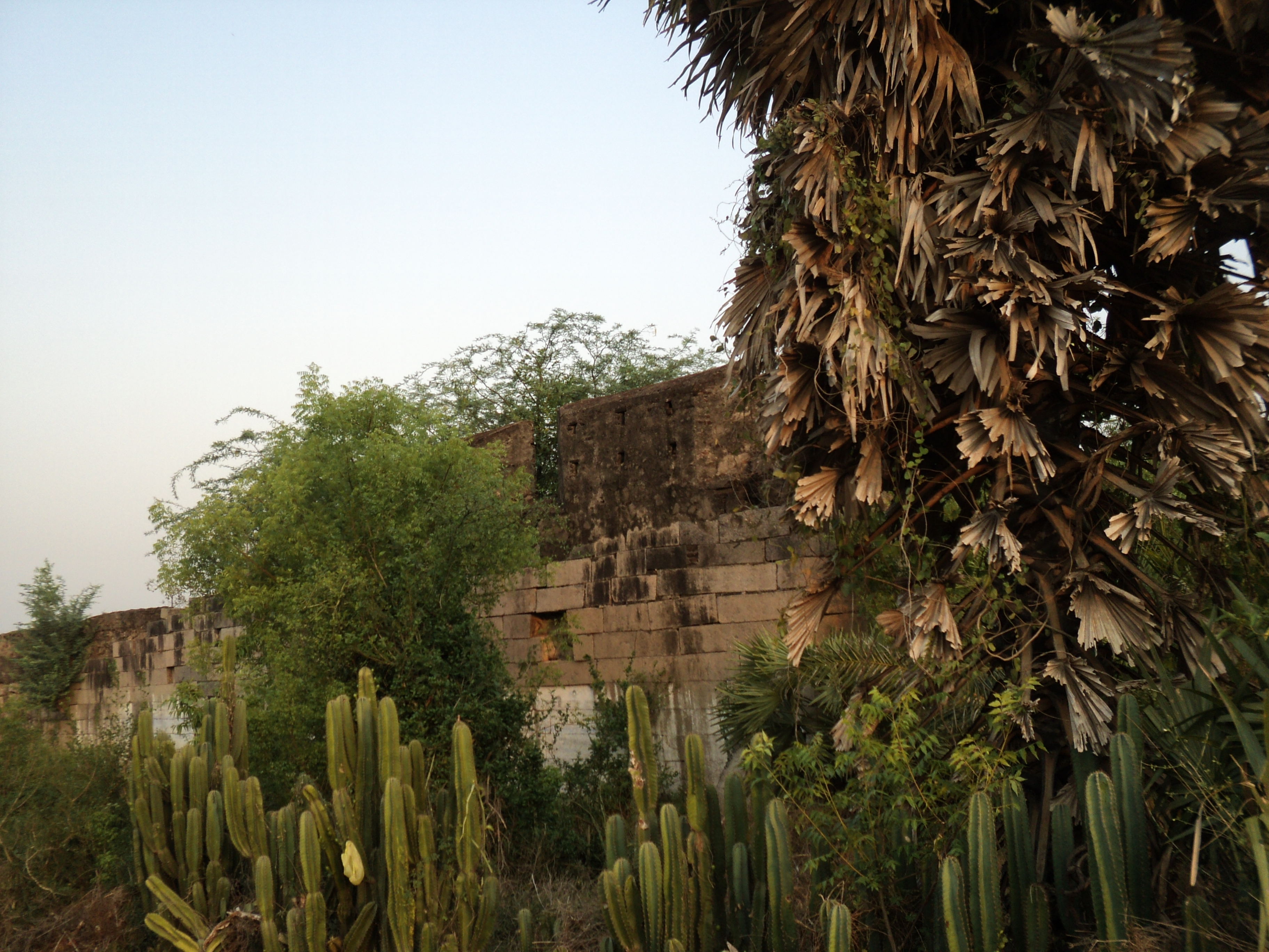 senthamangalam fort wall